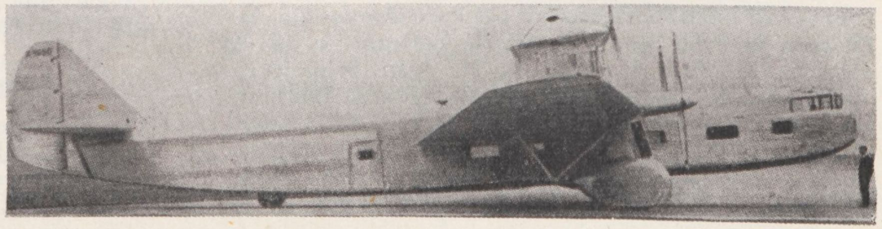 Ford 14 AT photo from L'Aérophile, May 1932, p. 137